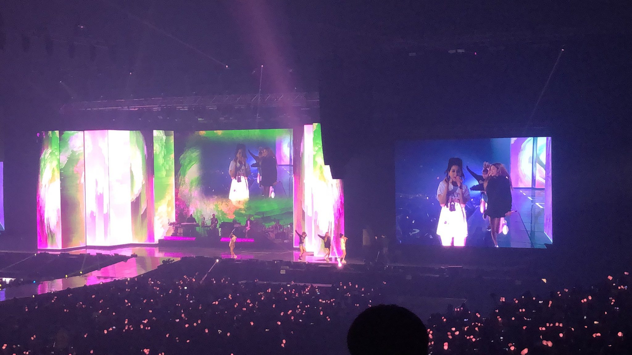 181110 BLACKPINK 2018 Tour (In Your Area) Seoul x BC Card